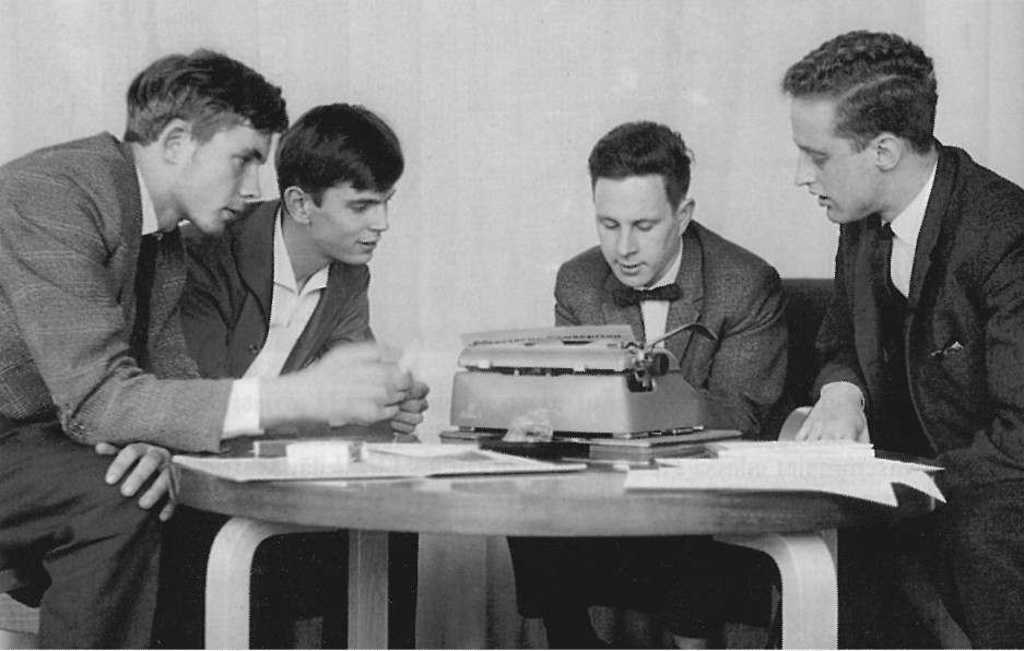 Photograph of young Finnish music scholars at Jyväskylän kulttuuripäivät festival in the early 1960s. From left to right: Ilpo Mansnerus (1943–), Erkki Kurenniemi (1941–2017), Ilpo Saunio (1939–1999), and Seppo Heikinheimo (1938–1997).